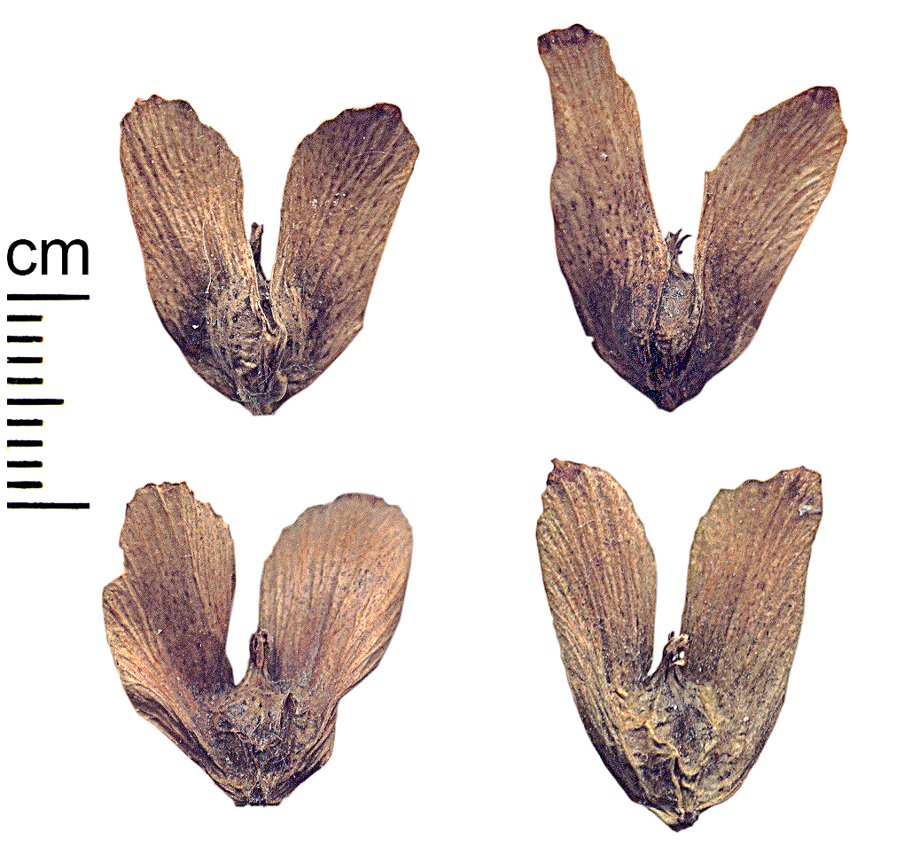 Winged nuts of Chinese Wingnut (Pterocarya stenoptera) Arboretum of University of Forestry – Sofia (photo: Mihailo Grbic)